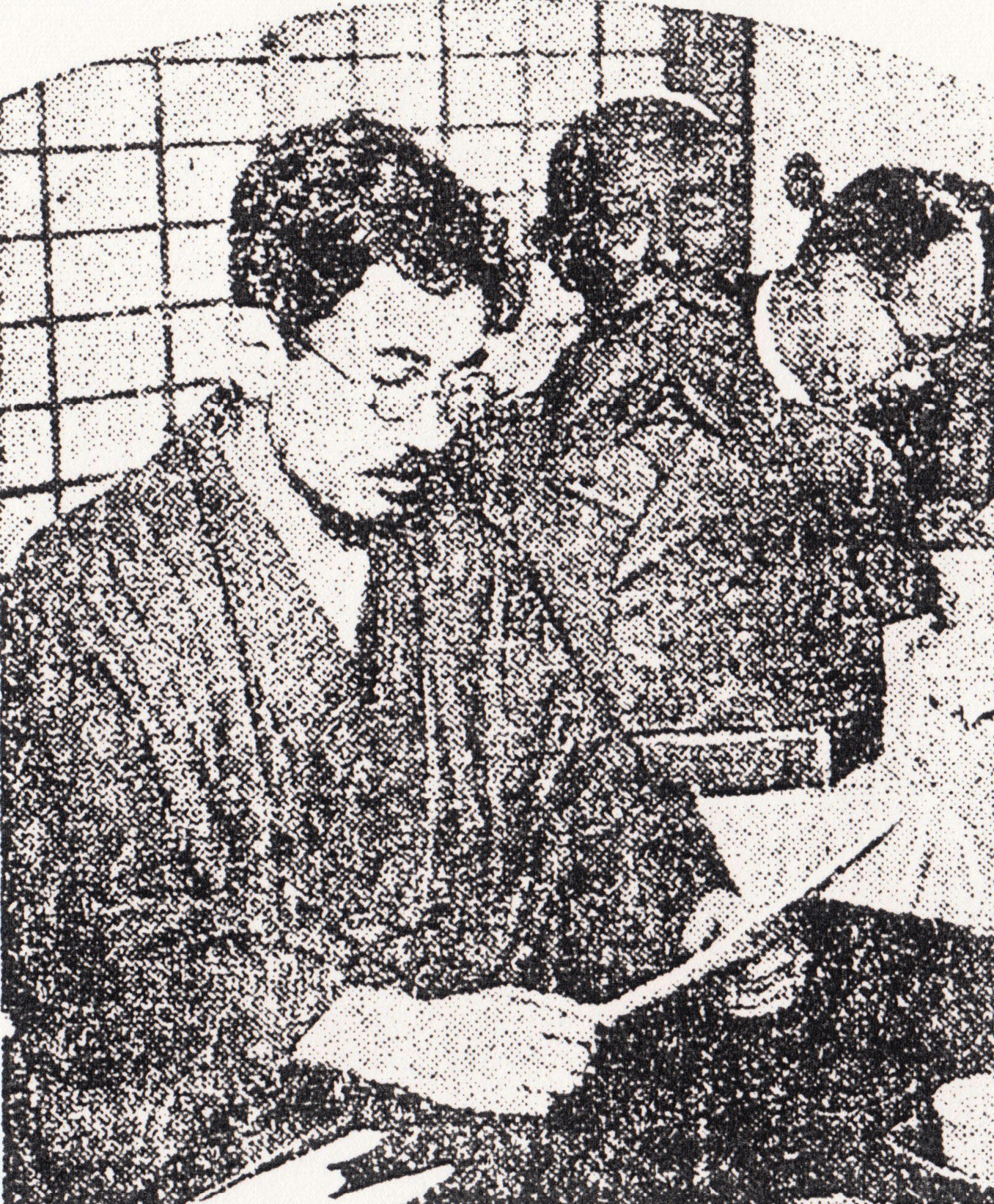 Itagaki Morimasa (1900-1951), Itagaki Taisuke's grandchild